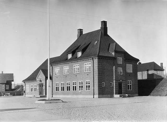 Skien Station of the Vestfold Line, Norway